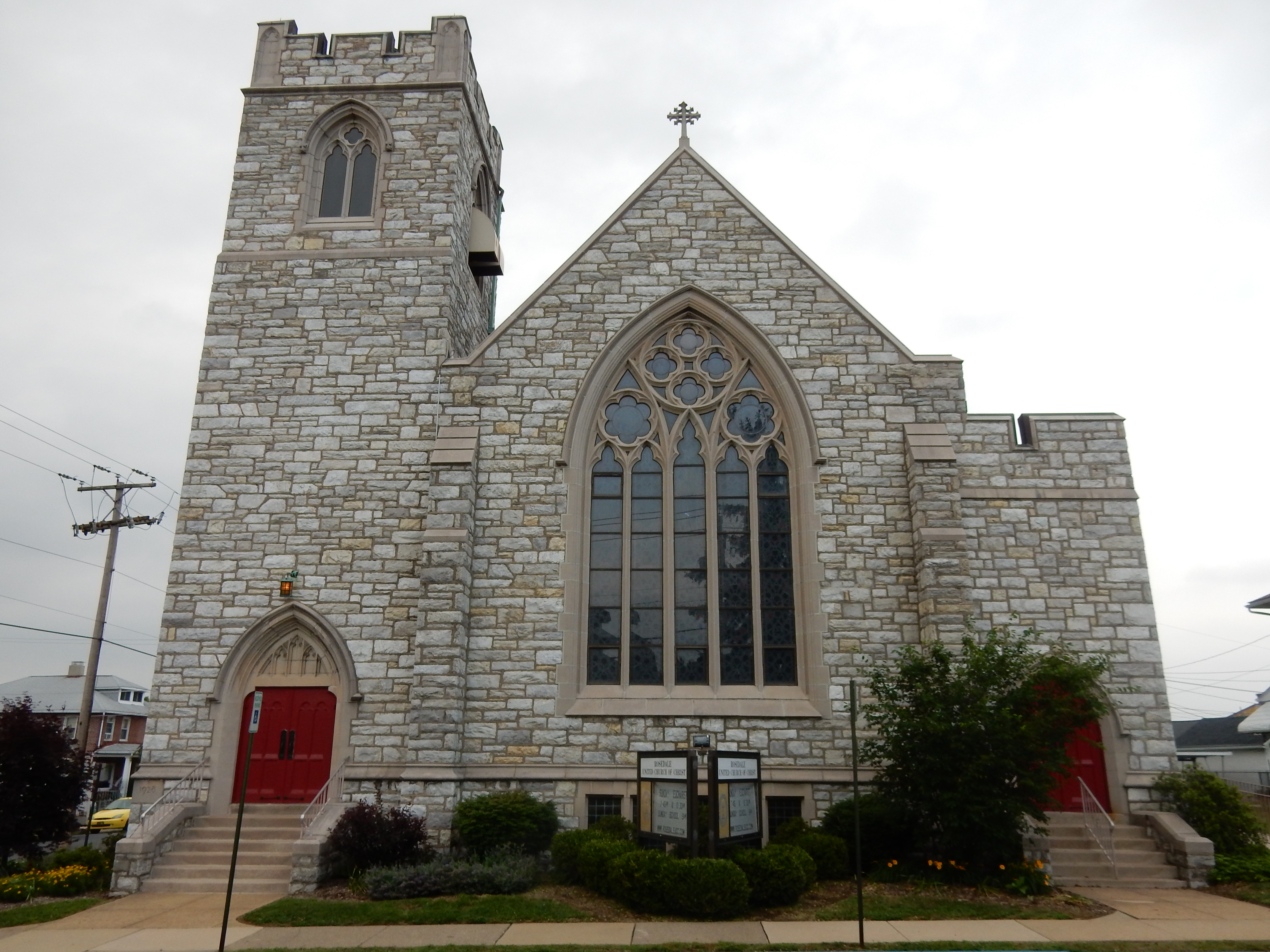 Rosedale United Church of Christ, built 1928. It is located on 1301 E. Bellevue Ave., Laureldale, Berks county, Pennsylvania.